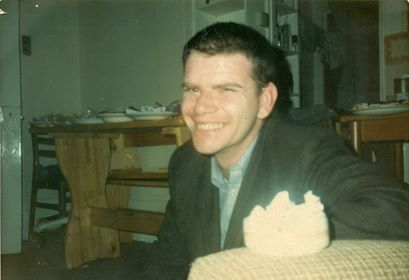 Photograph of Finbarr Donnelly, taken in the late 1980s by Ricky Dineen